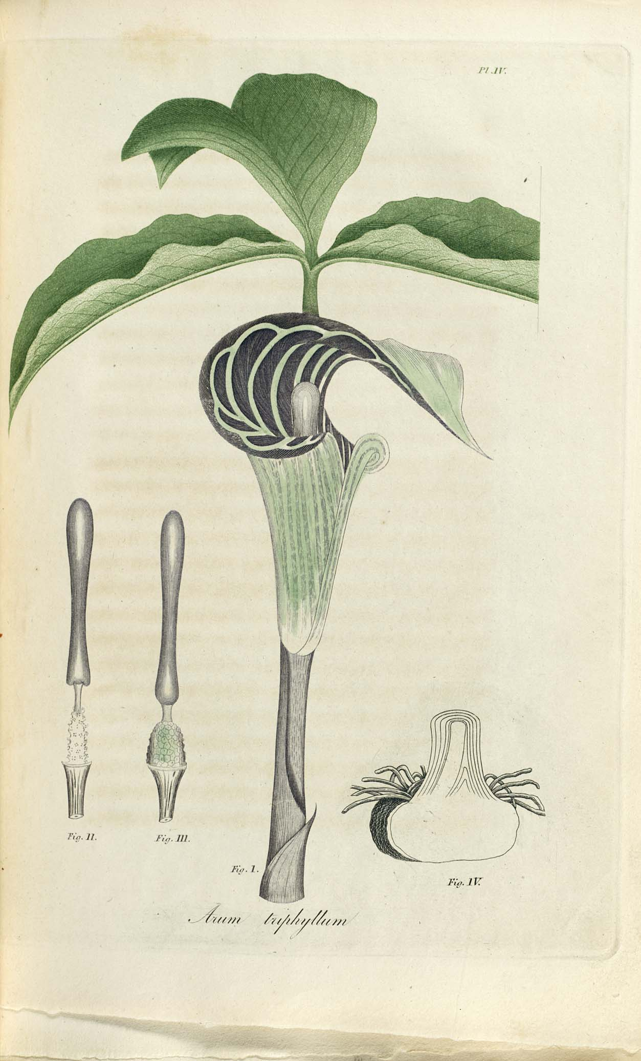 Plate IV To view the entire book, please visit American Medical Botany.